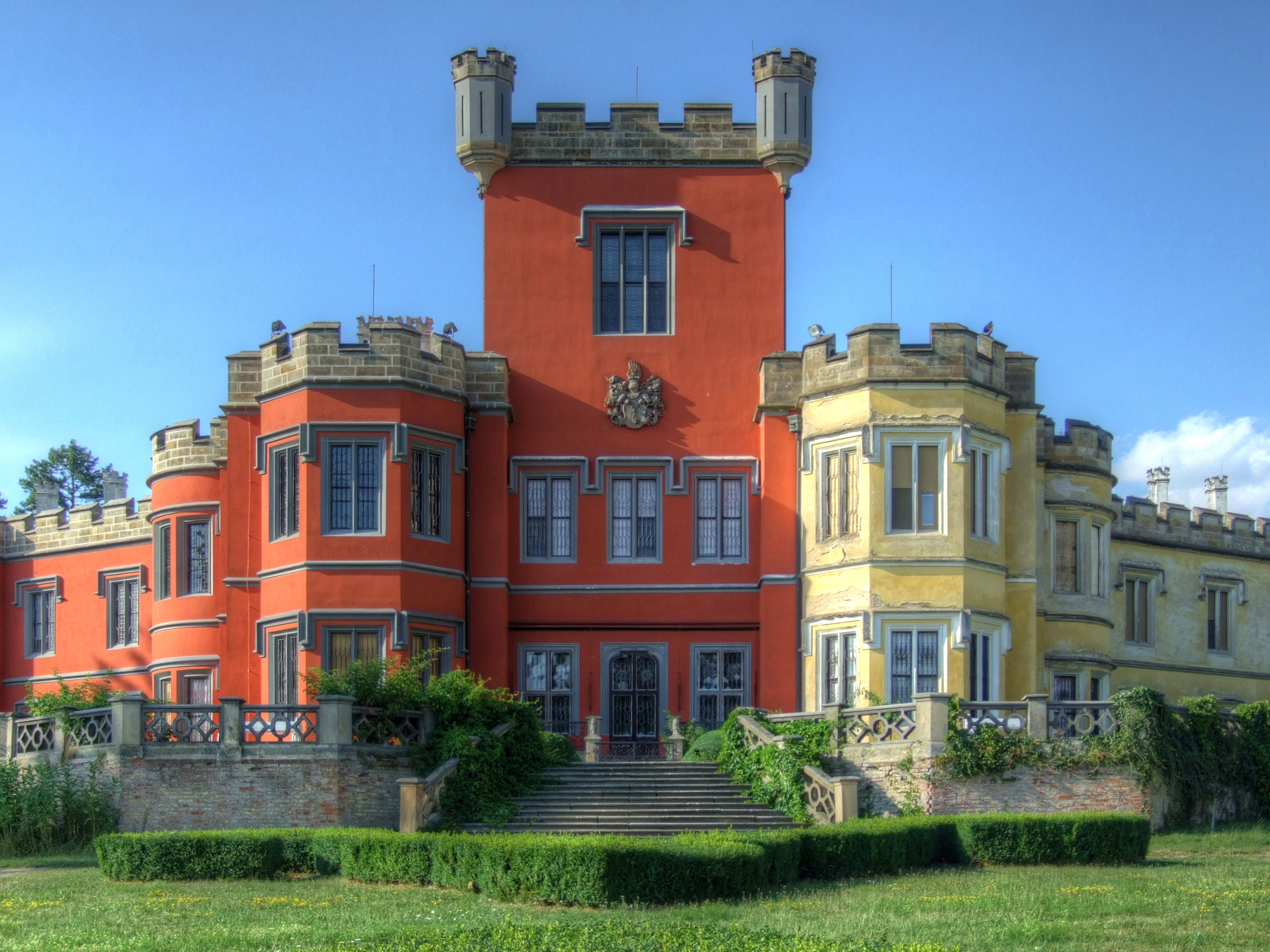 Hrádek u Nechanic is a 19th century Gothic architecture style Romantic château near the town of Hrádek in the Hradec Králové Region of the Czech Republic.